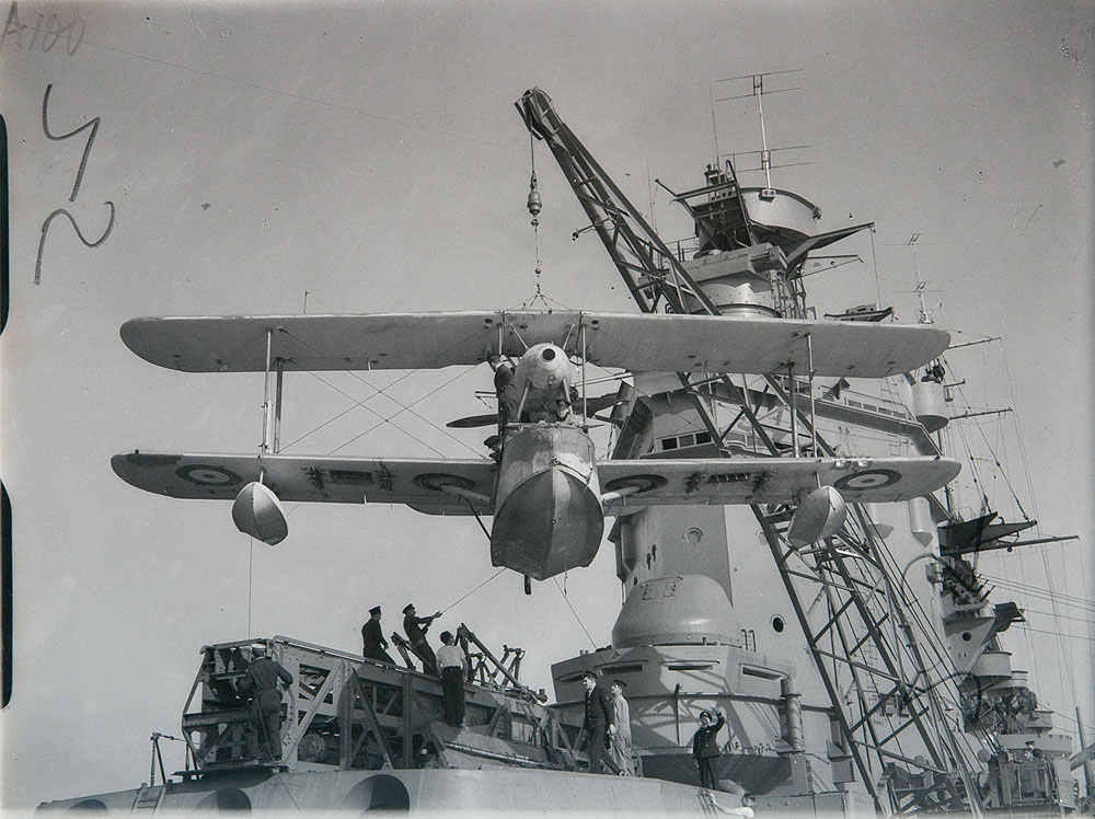 From a fascinating set of World War II photos, mainly medium format transparencies and some negatives. See set description for more information.